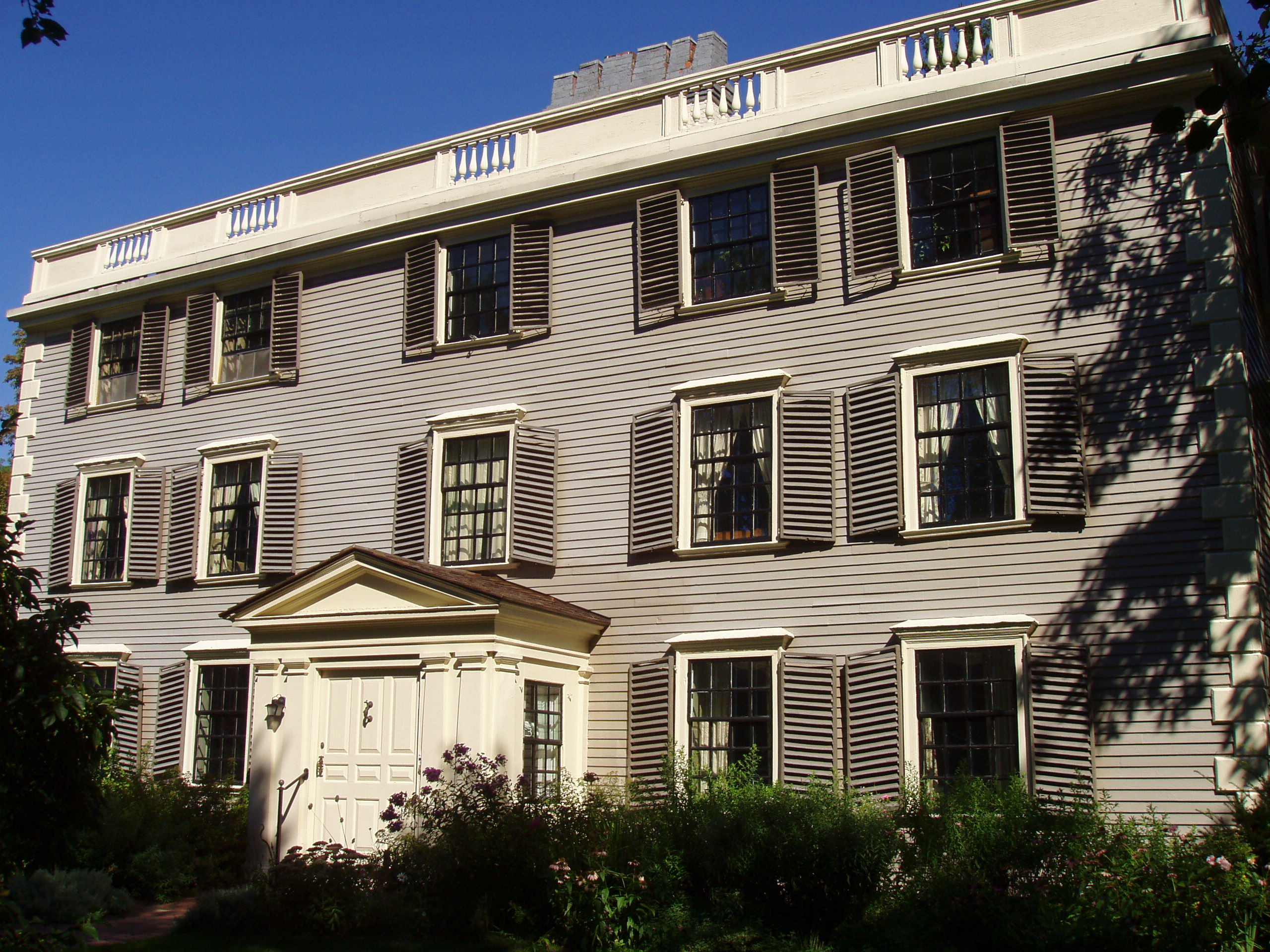 Hooper-Lee-Nichols House, Cambridge, Massachusetts. Photograph taken by me, September 2005.